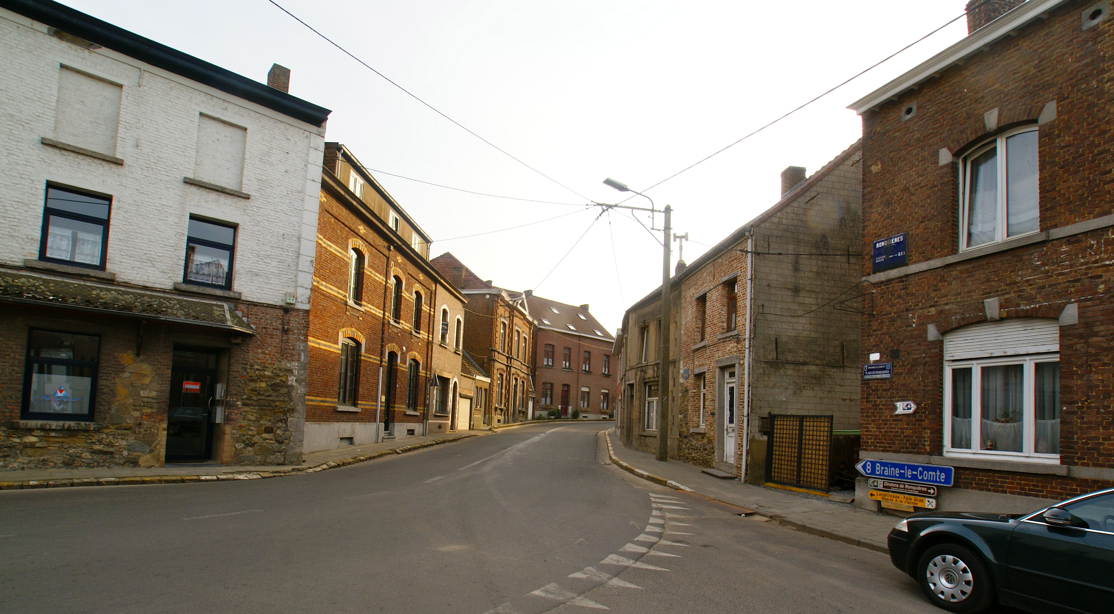 Braine-le-Comte (Ronquières), Belgium: Henripont Road